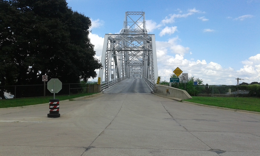 Black Hawk Bridge, Lansing, Iowa